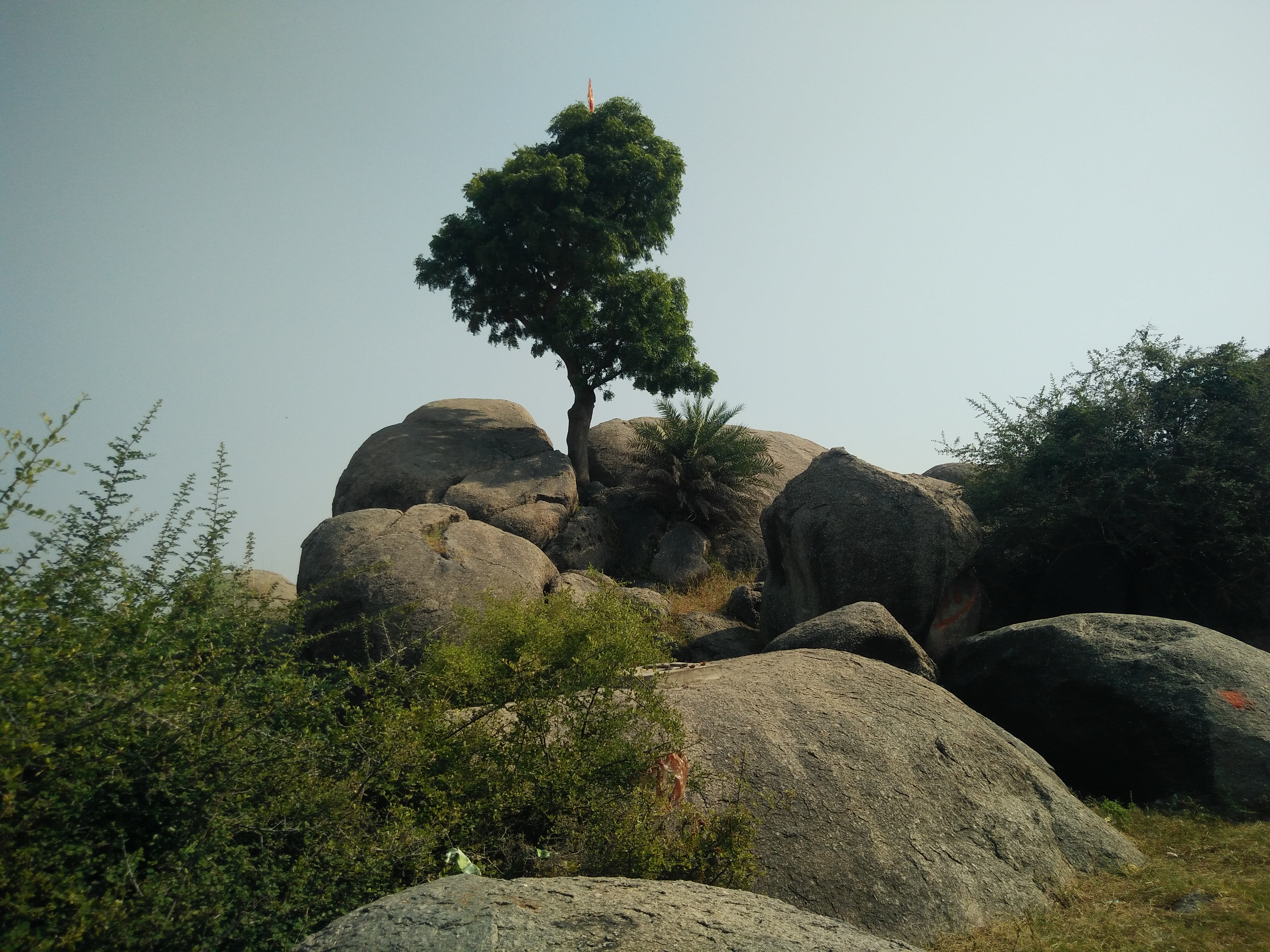 Just like plants, these rocks are growing day by day. A miracle of nature